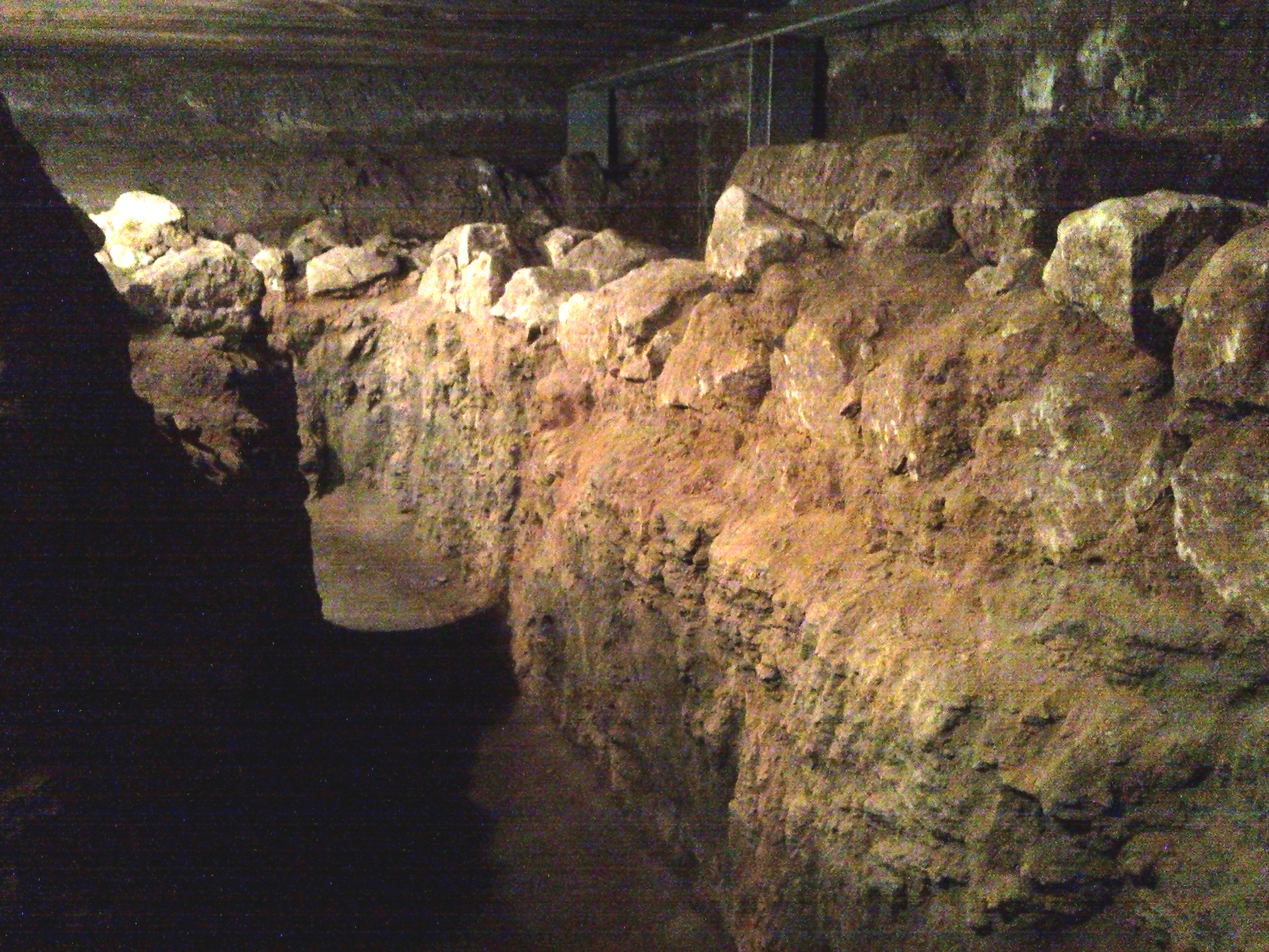 Corridors in the Catacombs of the Church of the Misericórdia, Sé, Angra do Heroísmo, Terceira (Azores), Portugal